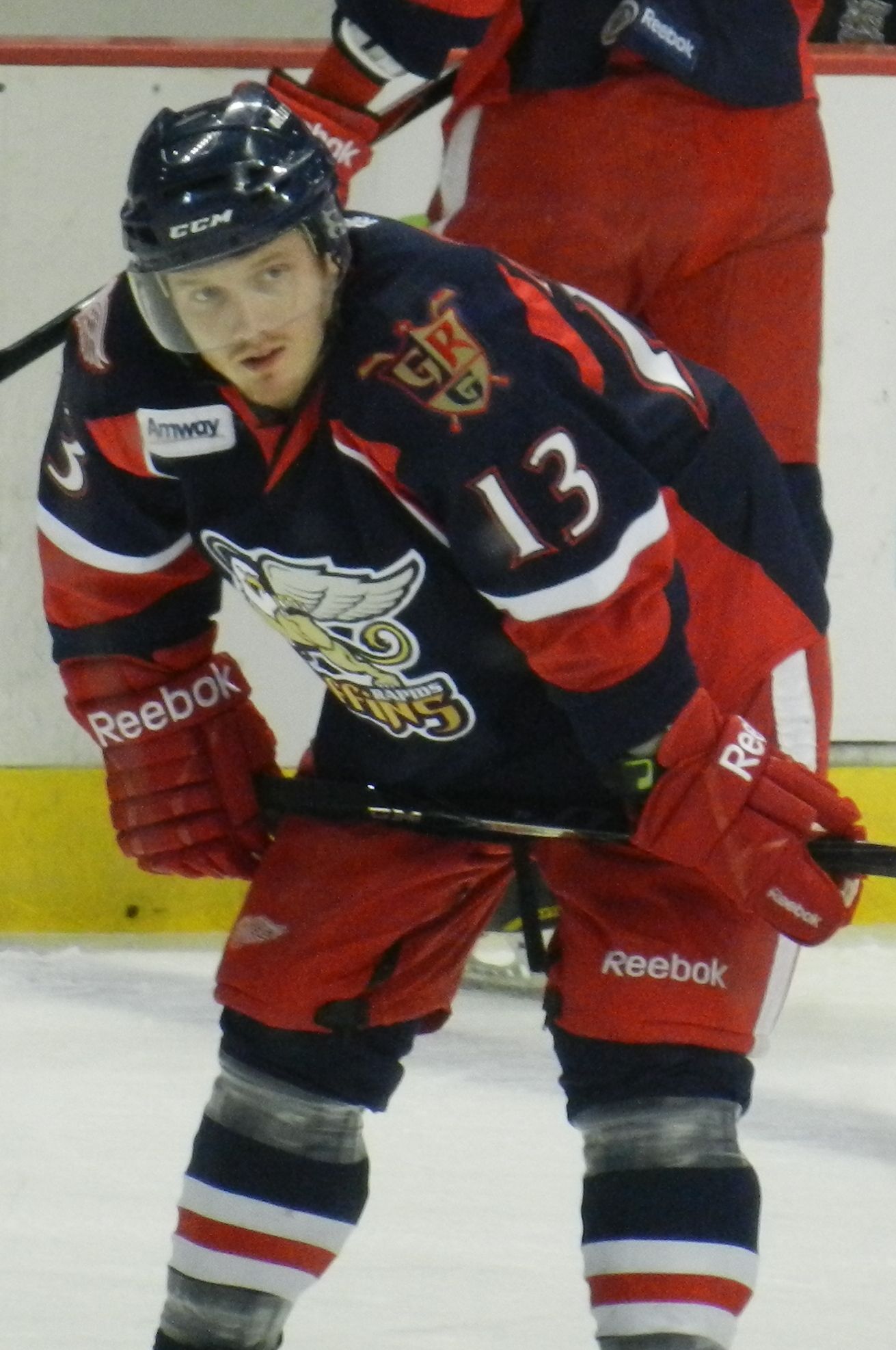 Gustav Nyquist playing for the American Hockey League's Grand Rapid Griffins